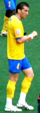 Rade Novković in action for FC Luch-Energia